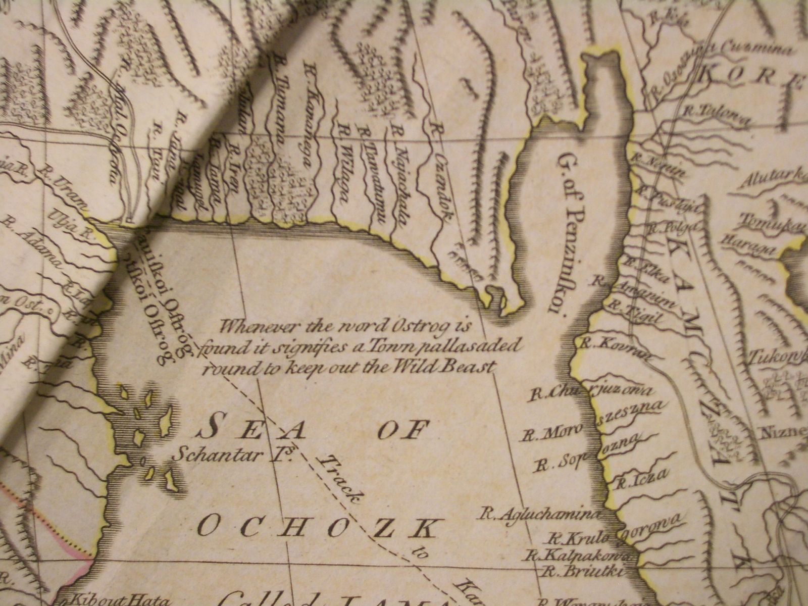 A fragment of the map of Russian Empire (pages 21-22), said to be based on d'Anville's work, in Thomas Kithen's "Atlas describing the Whole Universe"